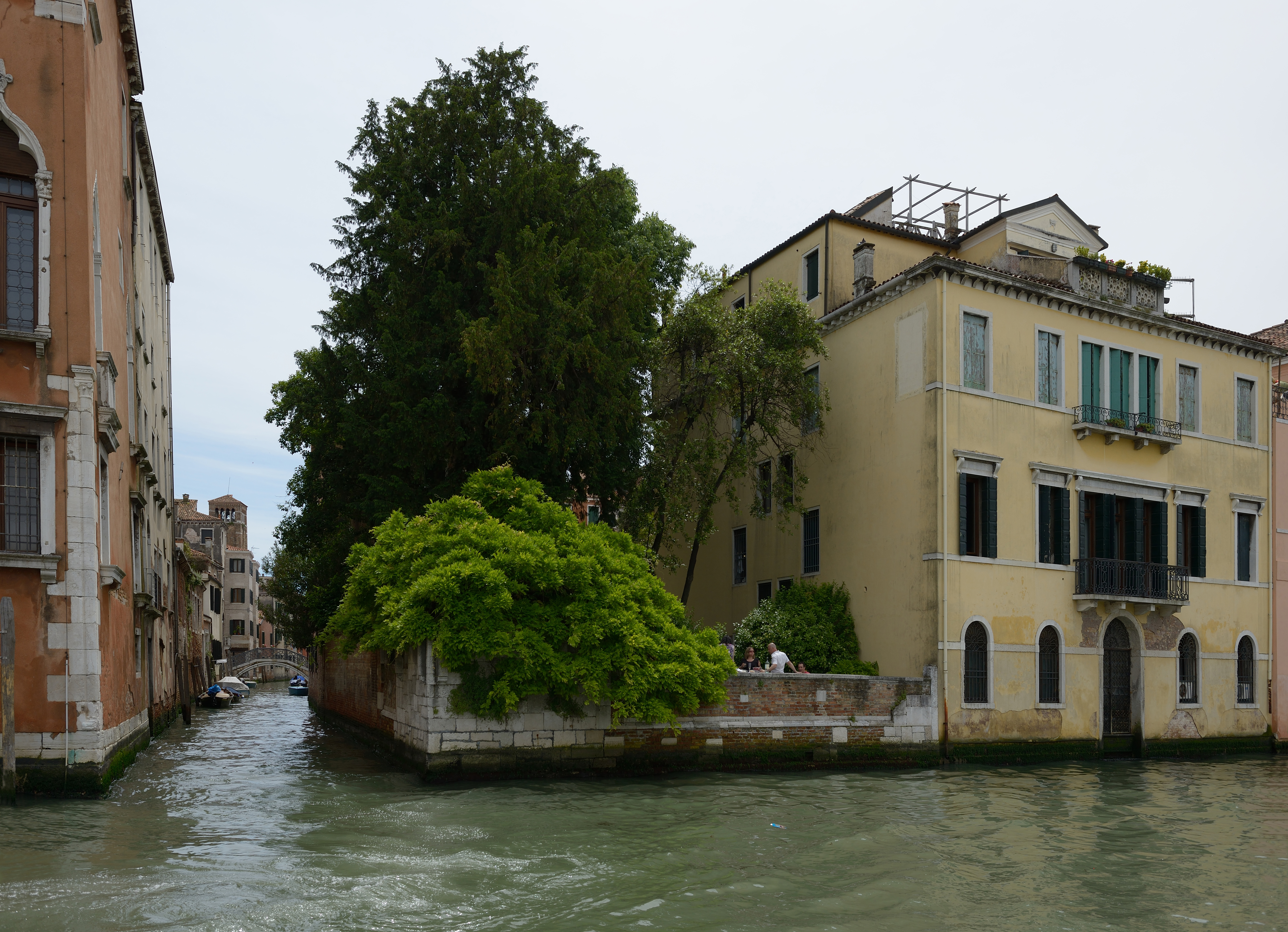 Rio de San Zan Degola from the Canal Grande in Venice